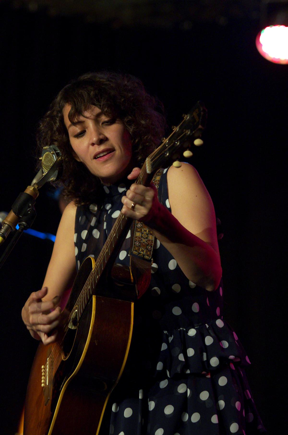 Gaby Moreno during a concert in Friedrichshafen/Germany March 20, 2015